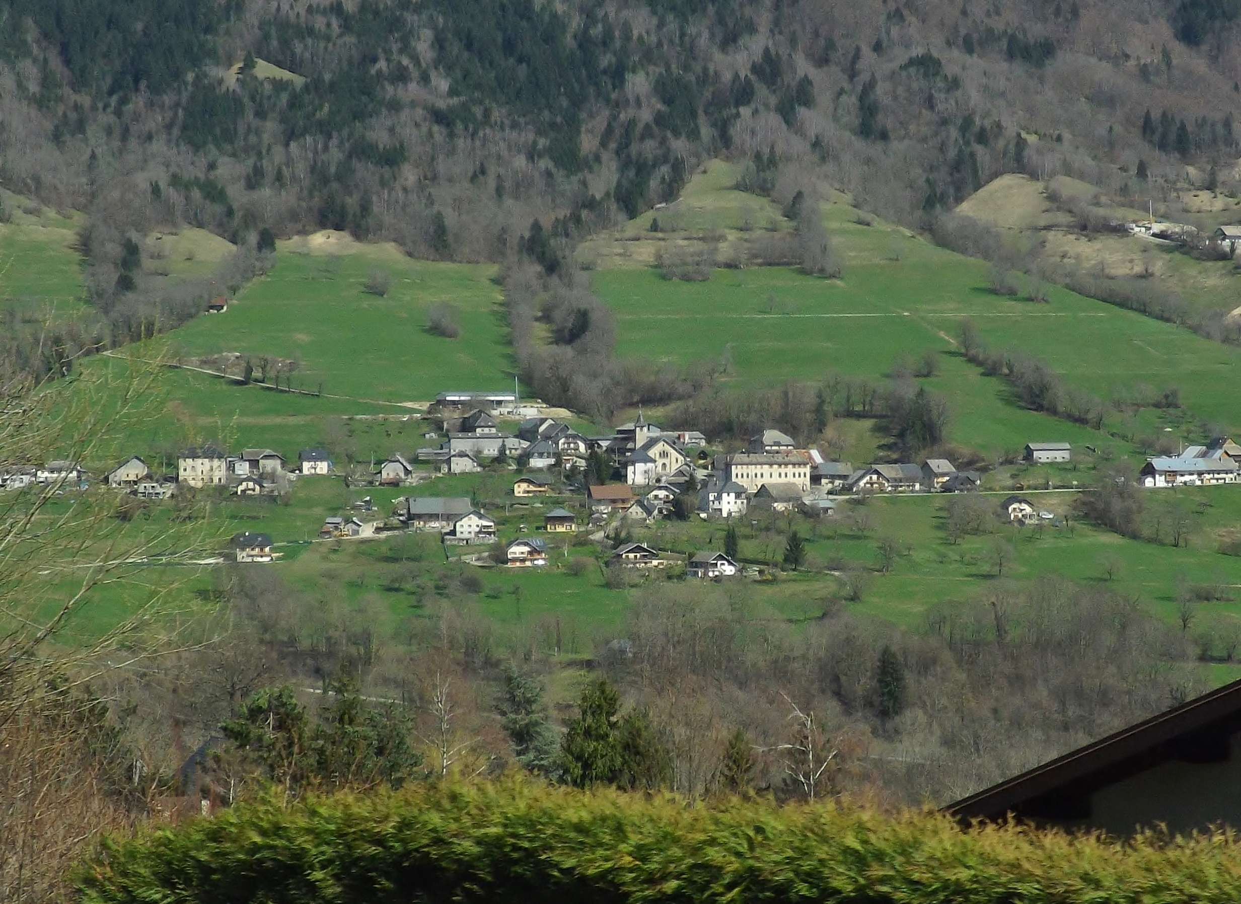 Sight of French village and commune of Thoiry in Savoie, in April.